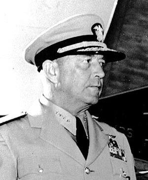 U.S. Navy Adm. Arthur W. Radford, commander in chief of the Pacific Fleet, at Hickam Air Force Base, Honolulu, Hawai, after the President Harry S. Truman's arrival in mid-October, 1950.